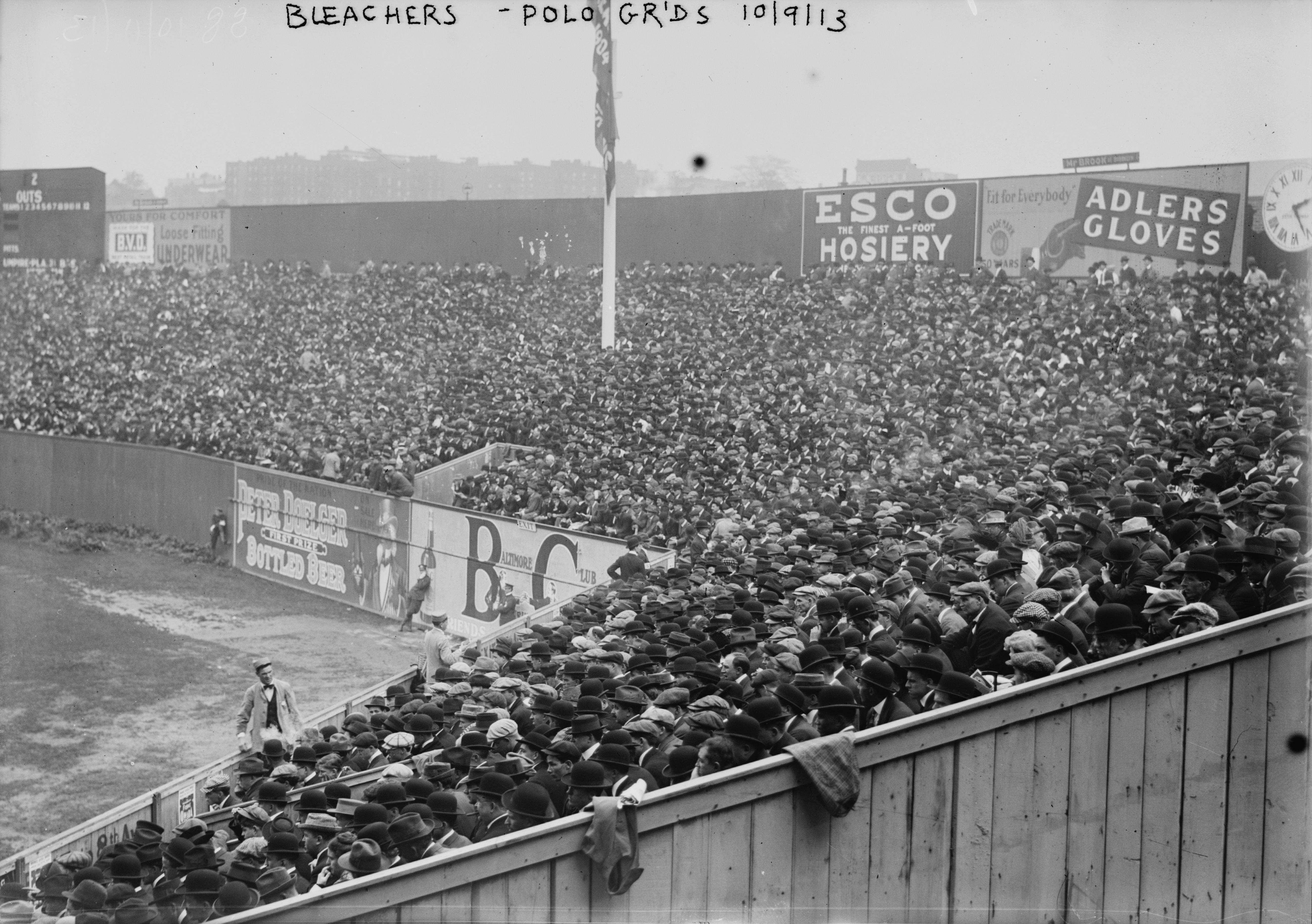 Bain News Service,, publisher. [Bleachers, World Series, Polo Grounds (baseball)] [1913 Oct. 9] 1 negative : glass ; 5 x 7 in. or smaller. Notes: Original data provided by the Bain News Service on the negatives or caption cards: Bleachers - Polo Grounds 10/9/13. Corrected title and date based on research by the Pictorial History Committee, Society for American Baseball Research, 2006. Forms part of: George Grantham Bain Collection (Library of Congress). Format: Glass negatives. Repository: Library of Congress, Prints and Photographs Division, Washington, D.C. 20540 USA, General information about the Bain Collection is available at Persistent URL: Call Number: LC-B2- 2852-7